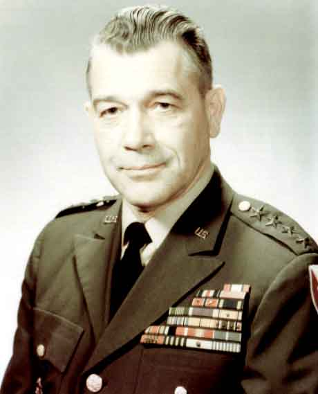 Ferdinand J.Chesarek from [1]